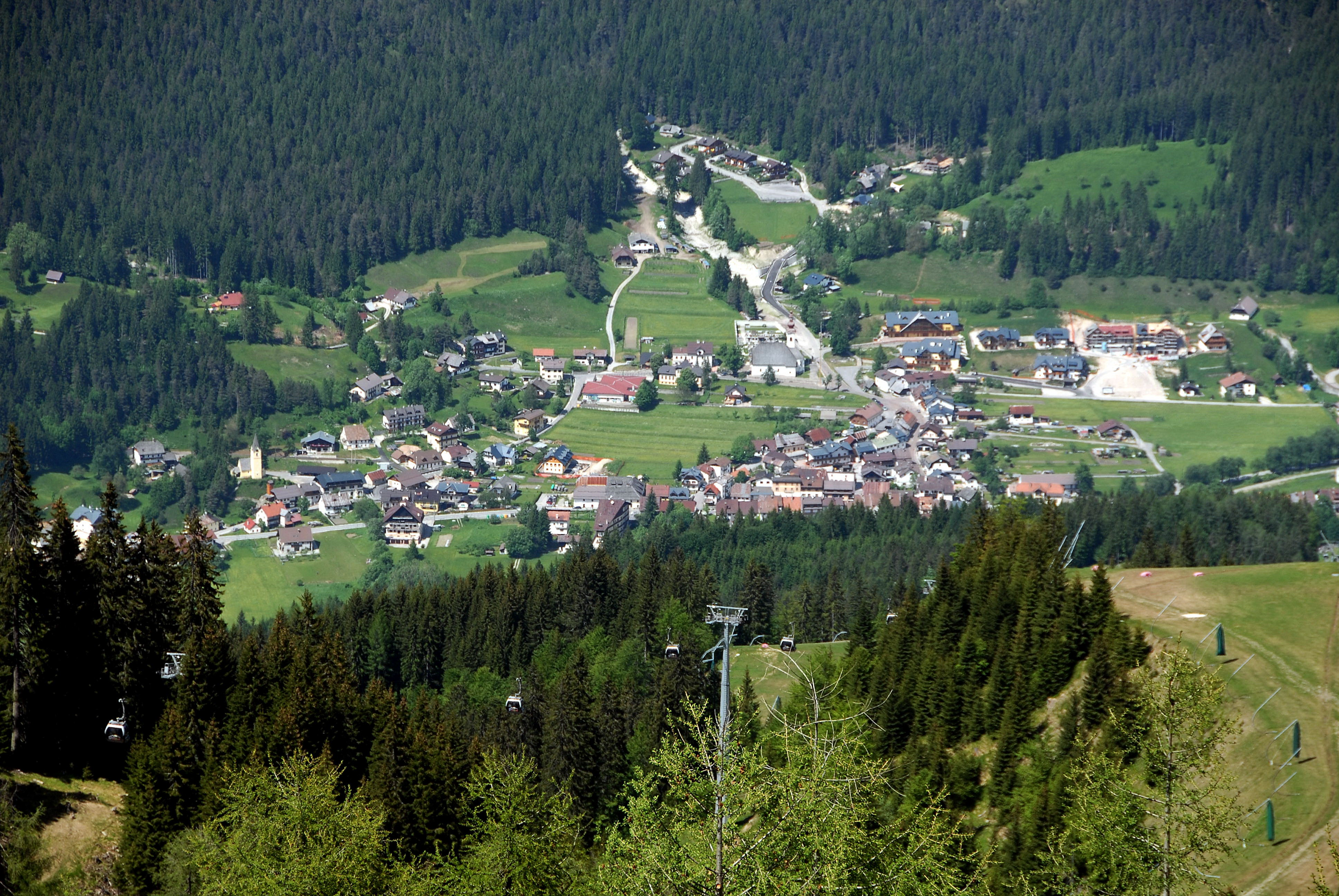 View from top of Mount Lussari at the the village Camporosso (in German language "Saifnitz") in Val Canale, municipality Tarvisio, province of Udine, region Friuli-Venezia Giulia, Italy